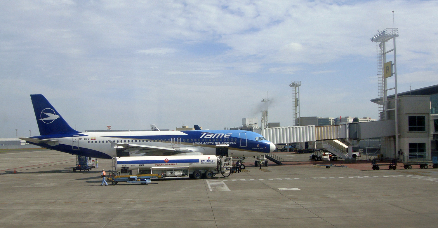 Tame Airbus A320 (HC-CGW) at José Joaquín de Olmedo International Airport, Guayaquil, Ecuador